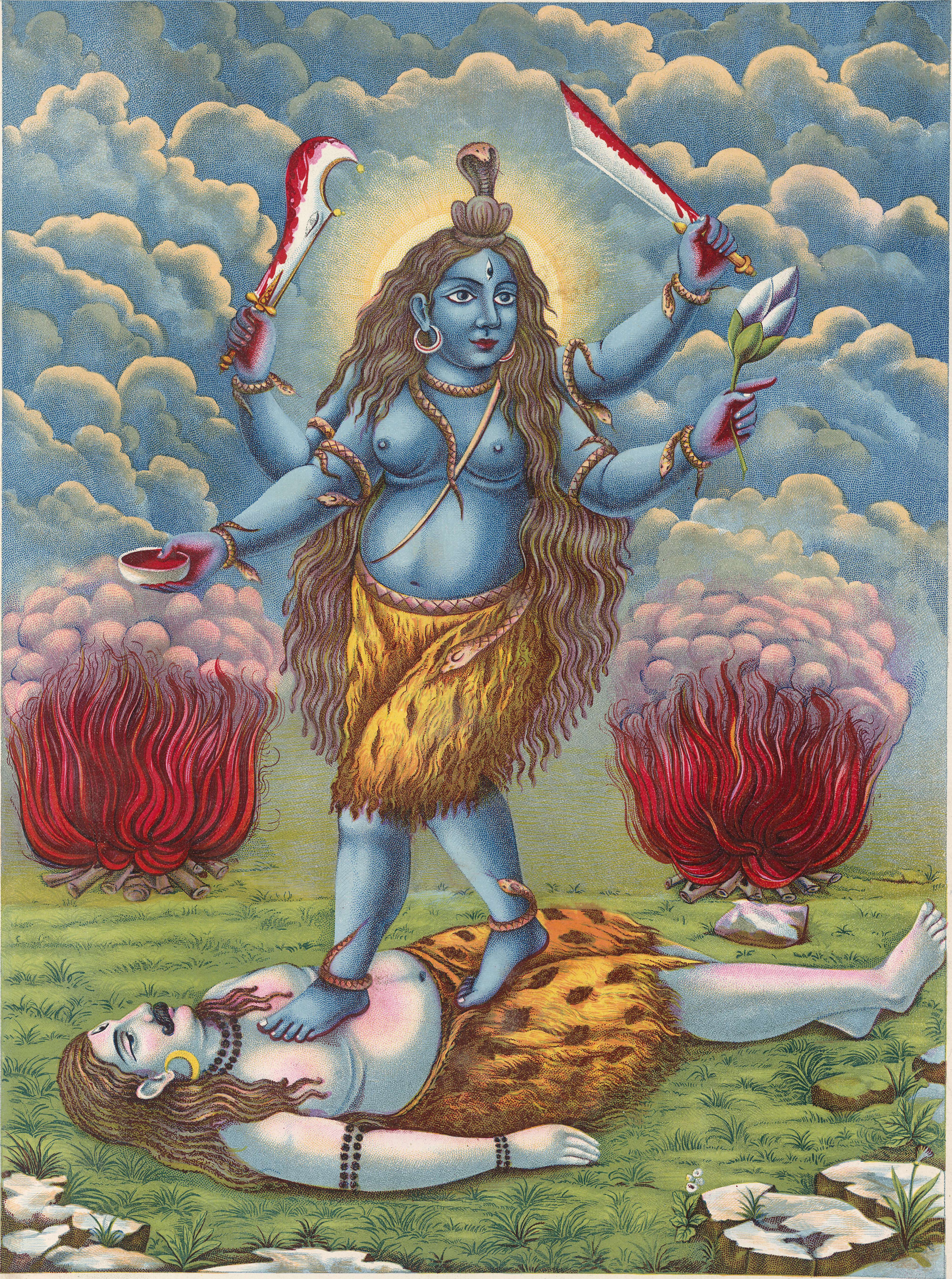 "Album of popular prints mounted on cloth pages. Colour lithograph, lettered, inscribed and numbered 53. Kali, holding a skull cup, two swords and a lotus, stands on Shiva. Two cremation fires burn in the background. Kali is usually associated with this pose, however the two goddesses are virtually indistinguishable."